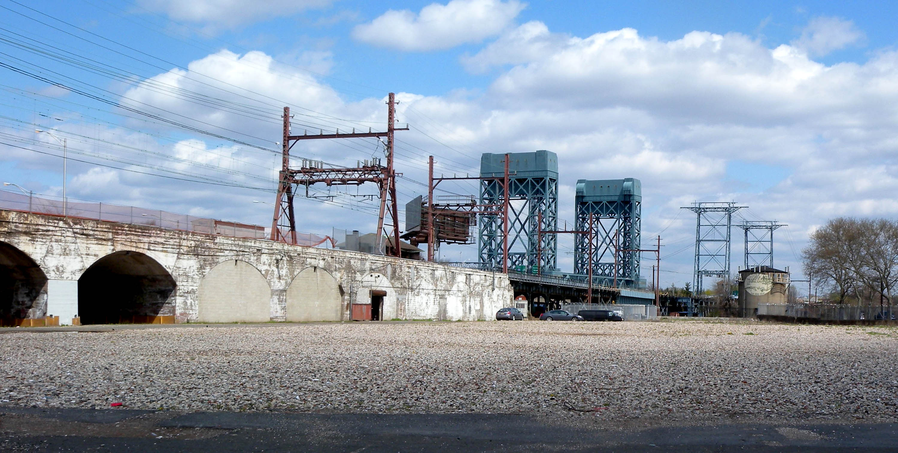 View of Newark Drawbridge, also known as the Morristown Line Bridge, a railroad bridge crossing the Passaic River. The William A. Stickel Memorial Bridge is seen in the background. Looking east from Broad Street on a sunny midday.